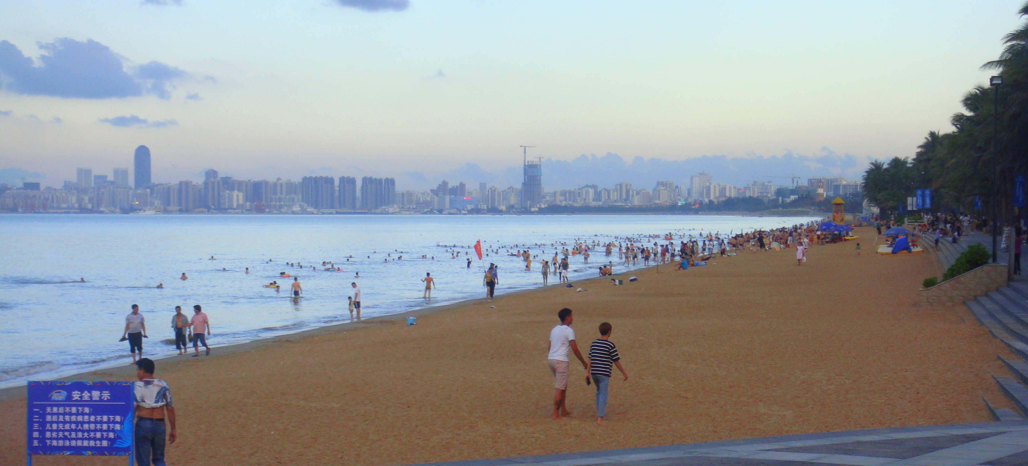 Holiday Beach in 2017 06, Haikou, Hainan, China